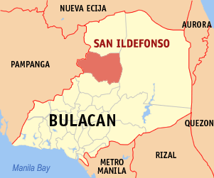 Map of Bulacan showing the location of San Ildefonso